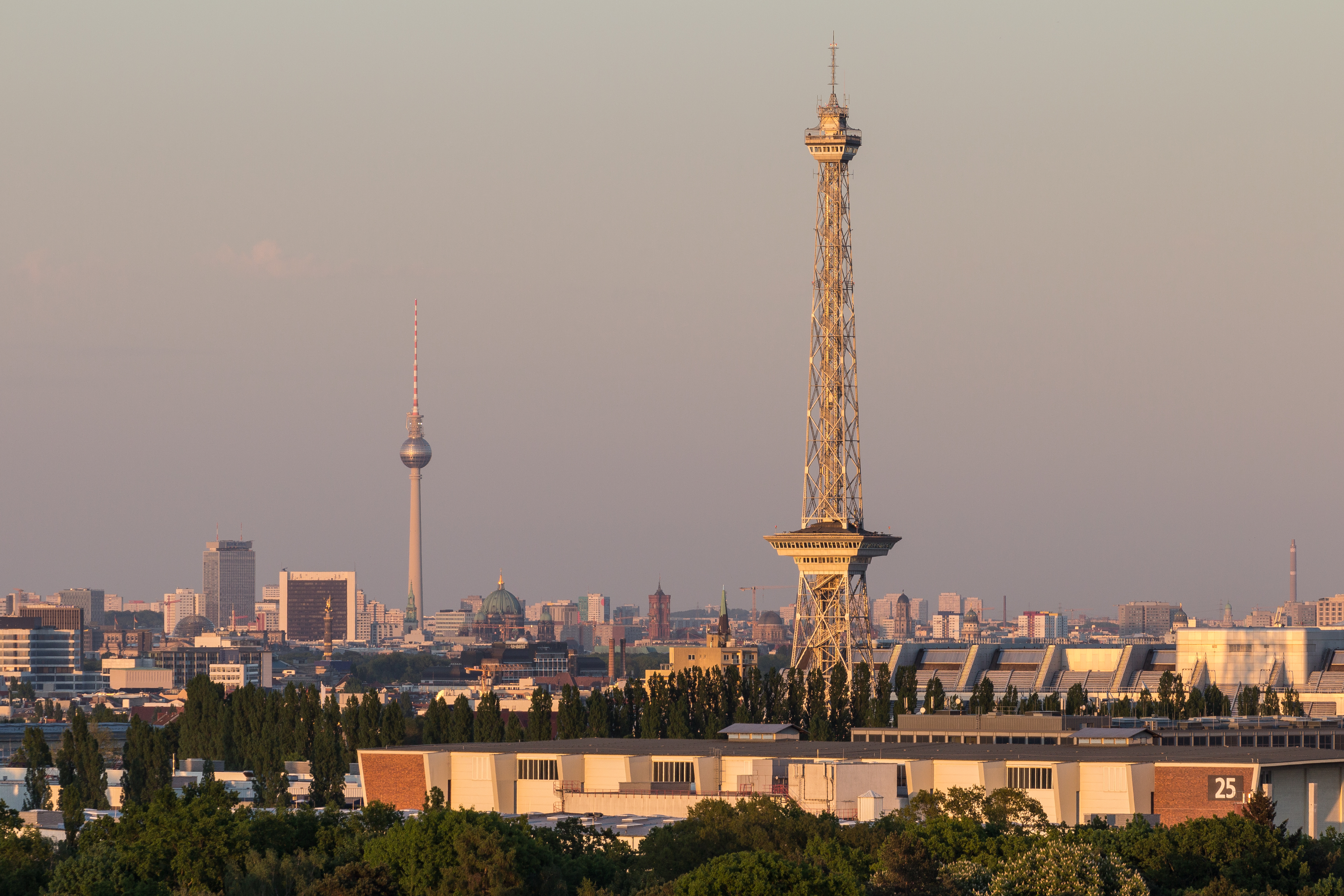 Berliner Funkturm and panorama of the city in dawnThis is a photograph of an architectural monument.